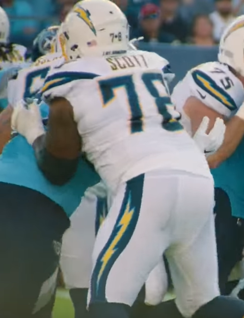 Trent Scott 2019. Image from video Titans Mic'd Up vs. Chargers (Week 7) | Sounds of the Game, ~ 02:24.